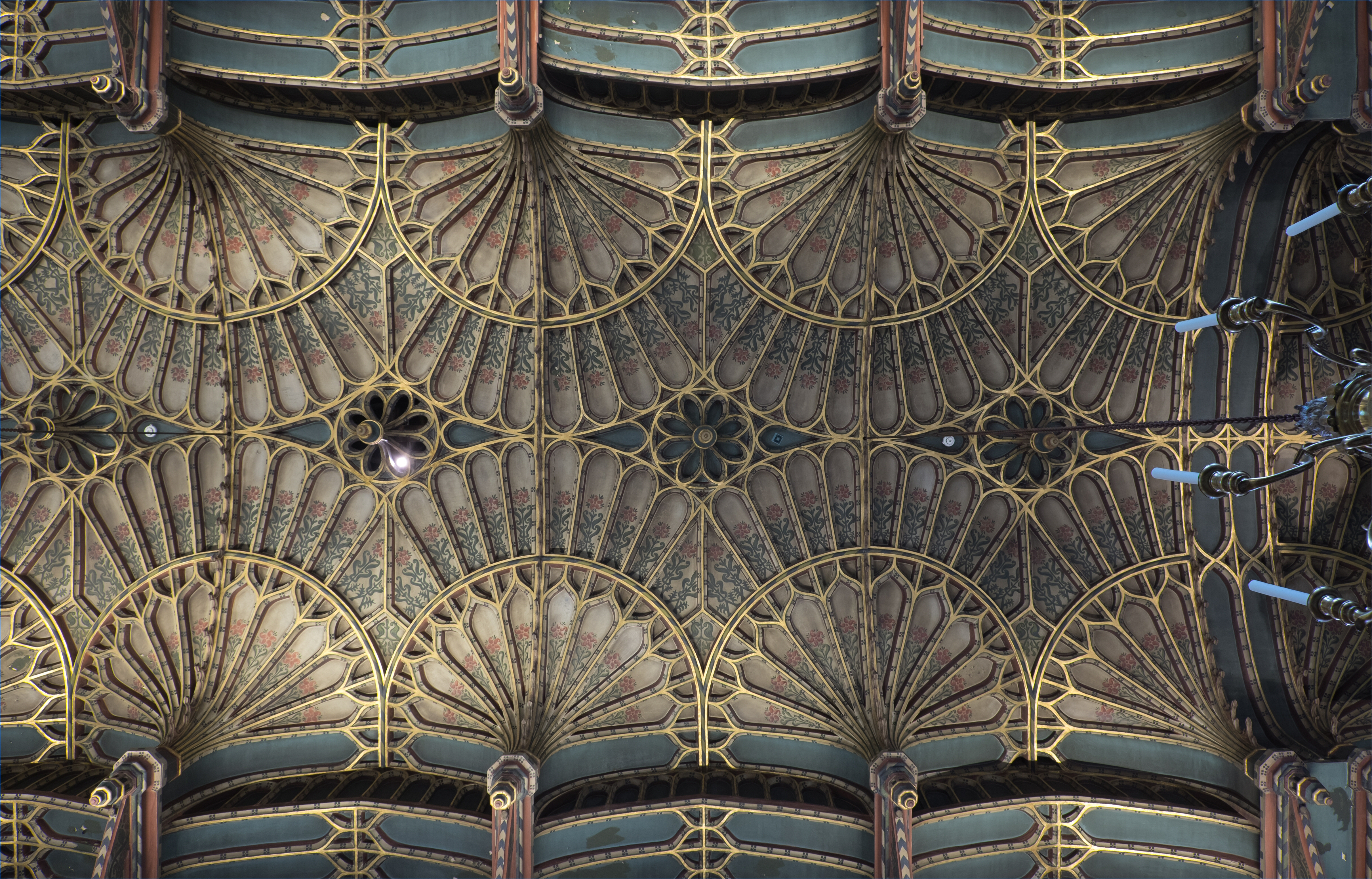 The ceiling of Brasenose College Chapel, University of Oxford